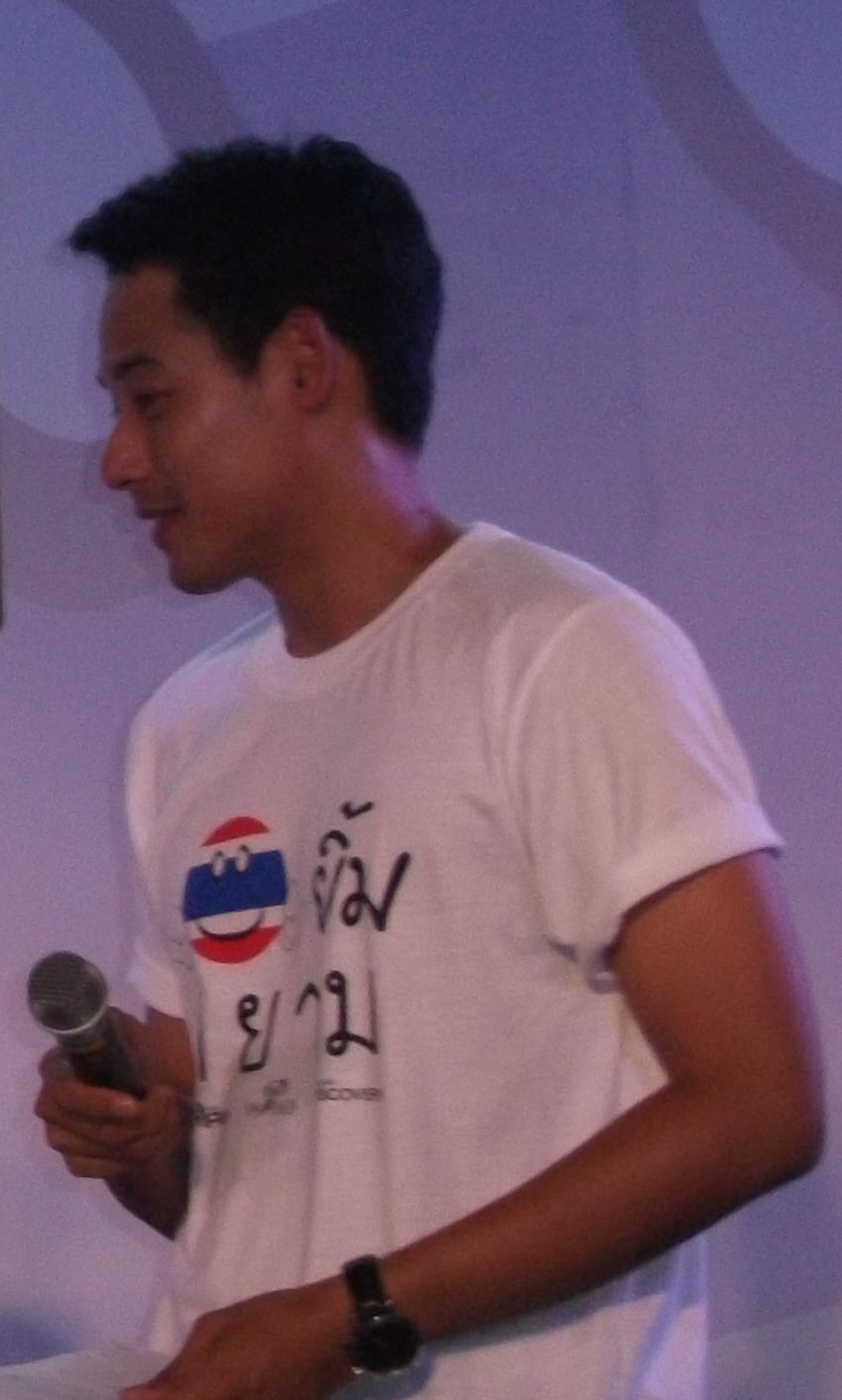 Karoonphol Thiensuwan at Parc Paragon, Siam Paragon, Bangkok.